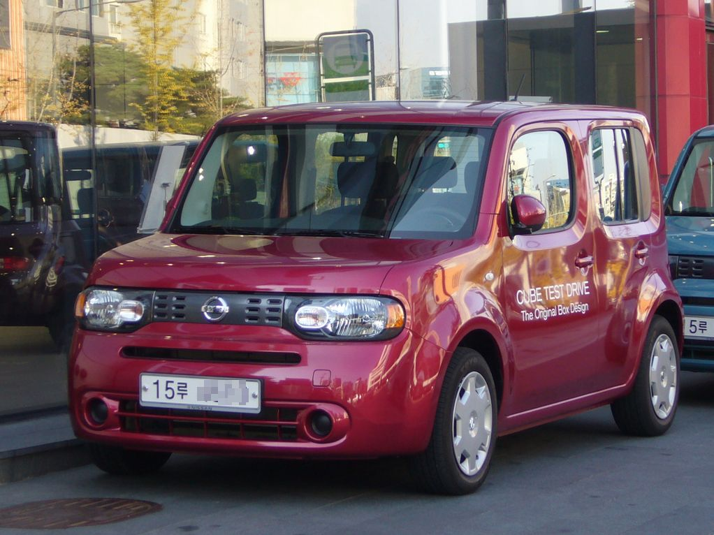 NISSAN CUBE